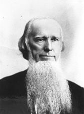 Joseph Emerson Brown, Governor of Georgia